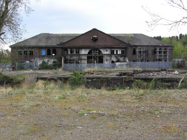 New Foundry, Stourbridge This is an important building on several levels. An ironworks was established here in 1800 by john Bradley, later joined by James Foster and John Rastrick. This building is the "New Foundry" and dates from 1820 with a spectacular composite cast and wrought iron roof structure. The locomotive agenoria was built here in 1828 and Stourbridge Lion in 1829 (the first loco in America). There are plans afoot to preserve the building and possibly create a museum within it.